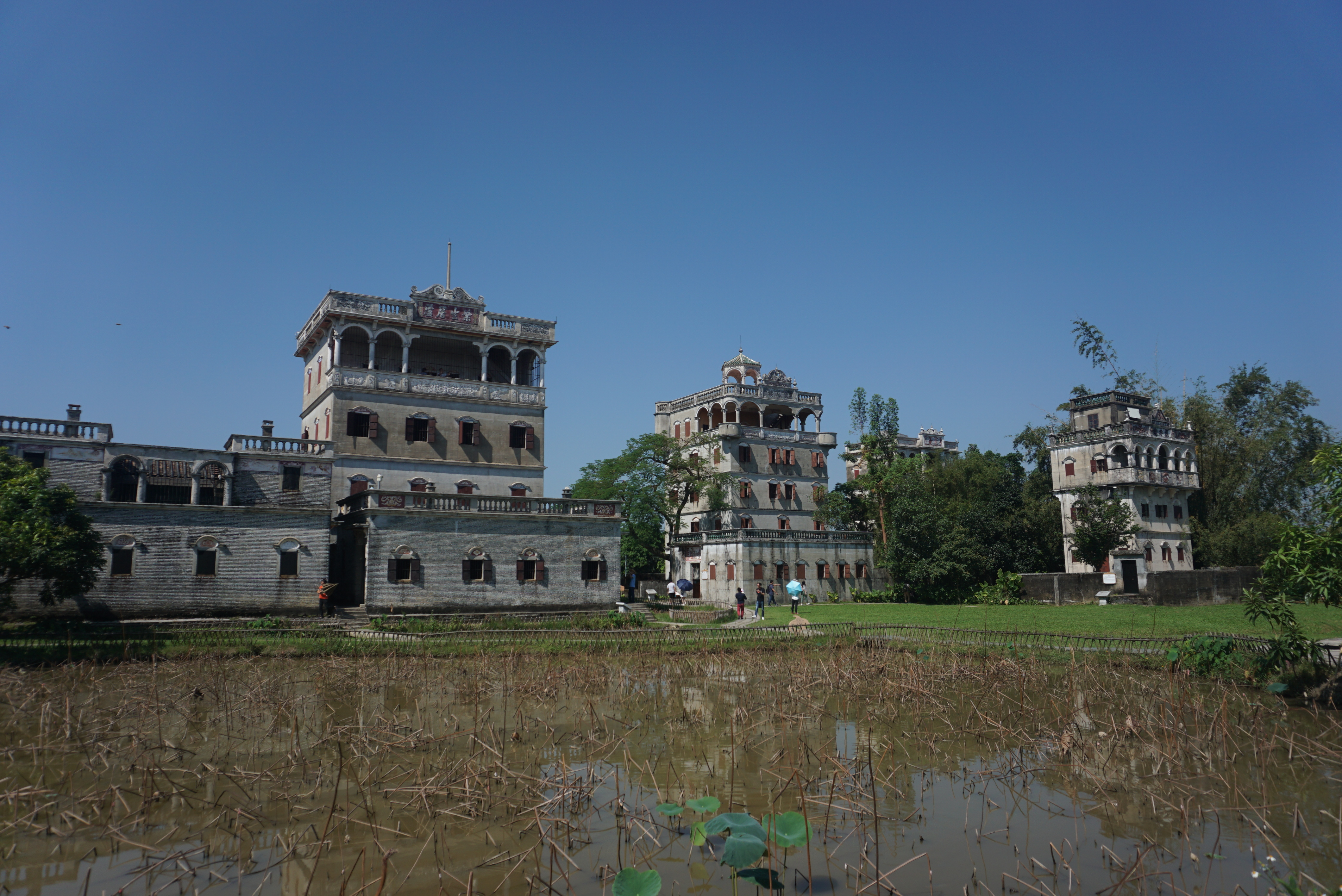 Diaolou cluster in Zili Village, Tangkou Town, Kaiping, Guangdong Province, a part of the World Heritage Site "Kaiping Diaolou and Villages"